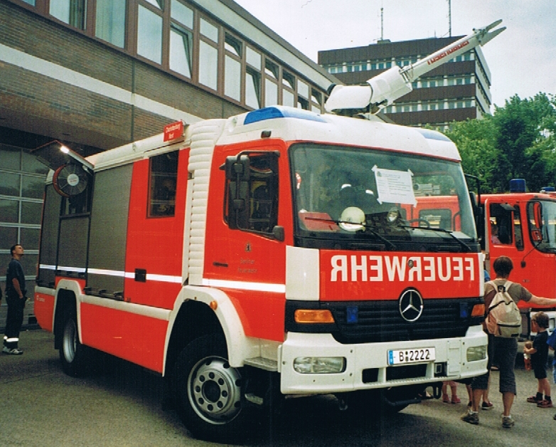 Mercedes-Benz Atego fire engine in Berlin, Germany, with "FEUERWEHR" in mirror writing ("RHEWREUEF").